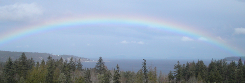 Rainbow over Discovery Bay, taken from Gardiner, Washington, facing north. Diamond Point is on the left. Photograph by Trevor Hanson, Gardiner, Washington.